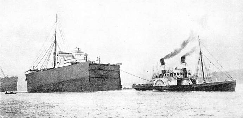 New bow of the liner Suevic beong towed from Belfast to Southampton.